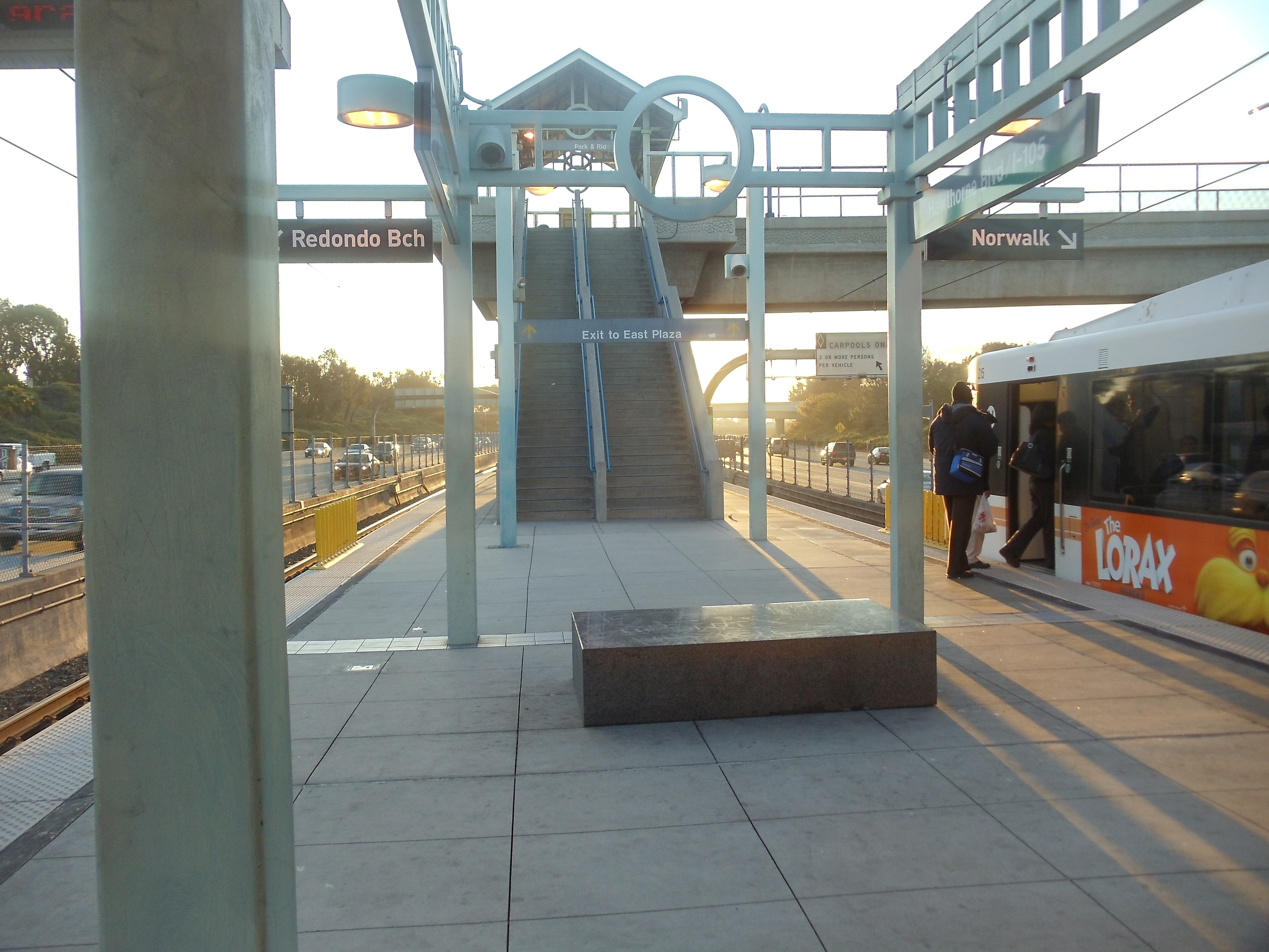 Metro Green Line heading to Norwalk departing Hawthorne Metro Green Line Station.